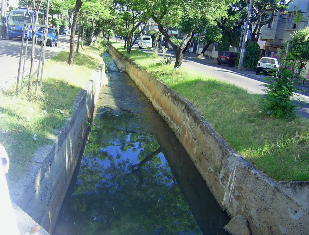 Meriti avenue, Vila Kosmos, Rio de Janeiro, Brasil.